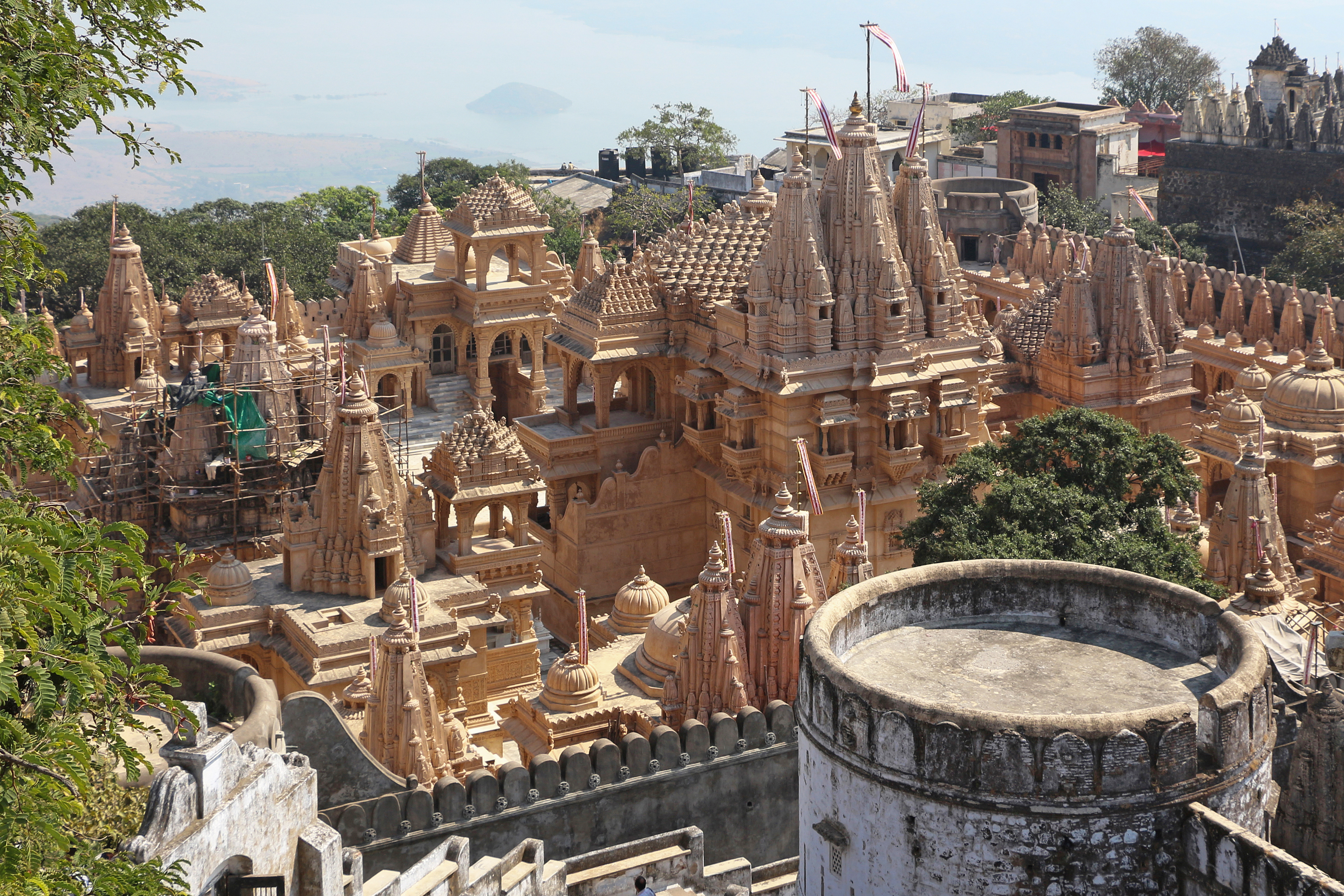 Sheth Motisha Tonk, Palitana temples complex, India